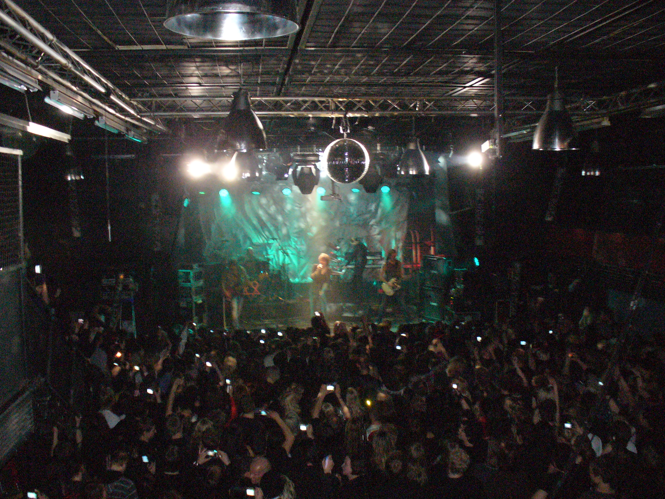 HIM performing at the Helldone Festival on December 28, 2009